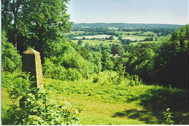 Netley Heath. Looking down to Netley House from the Pilgrims Way. This is a lower, parallel, path to the North Downs Way which tends to follow the ridge.